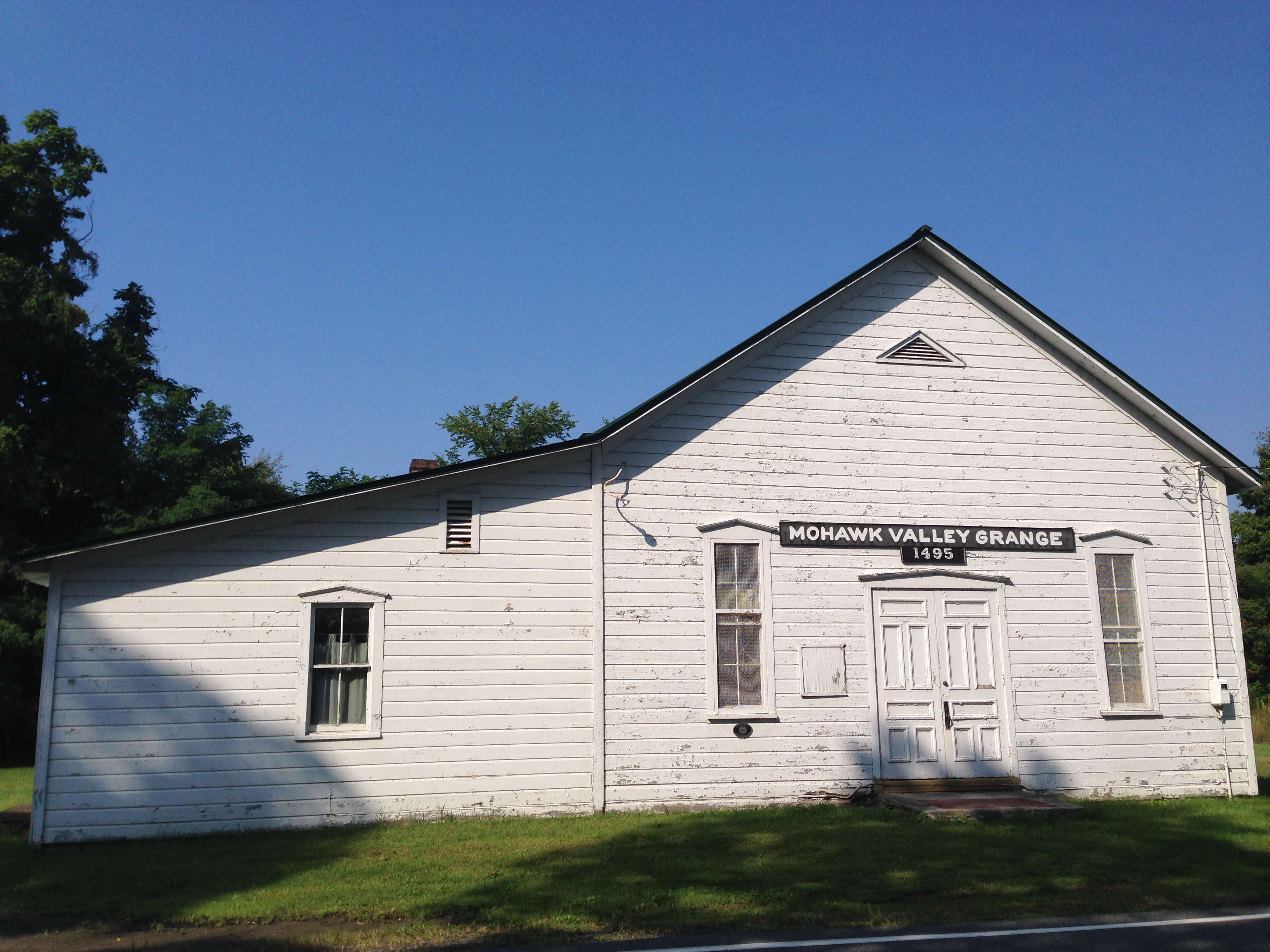 Mohawk Valley Grange Hall, 274 Sugar Hill Rd. Grooms Corners vicinity